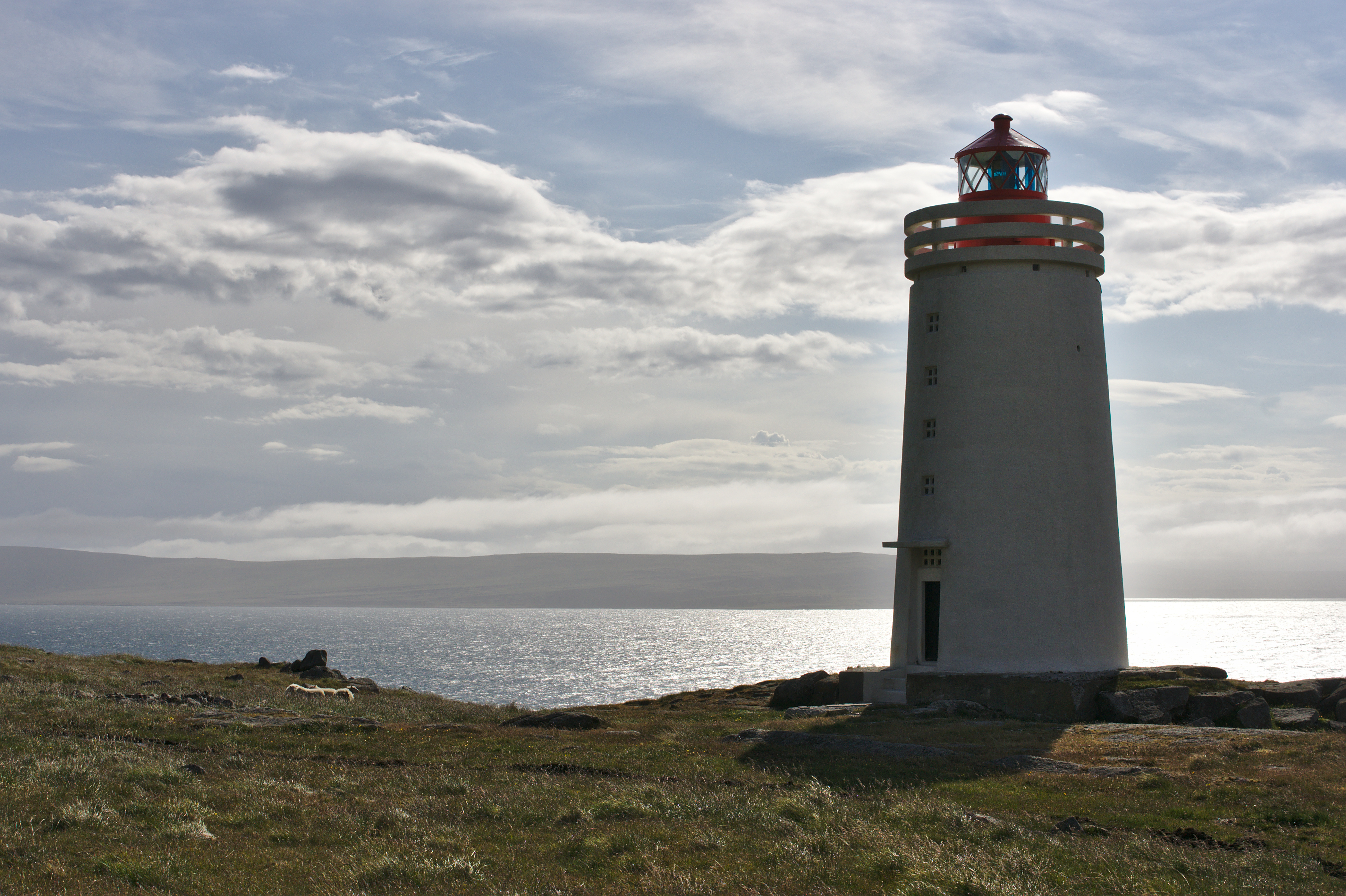 Skarðsviti Lighthouse